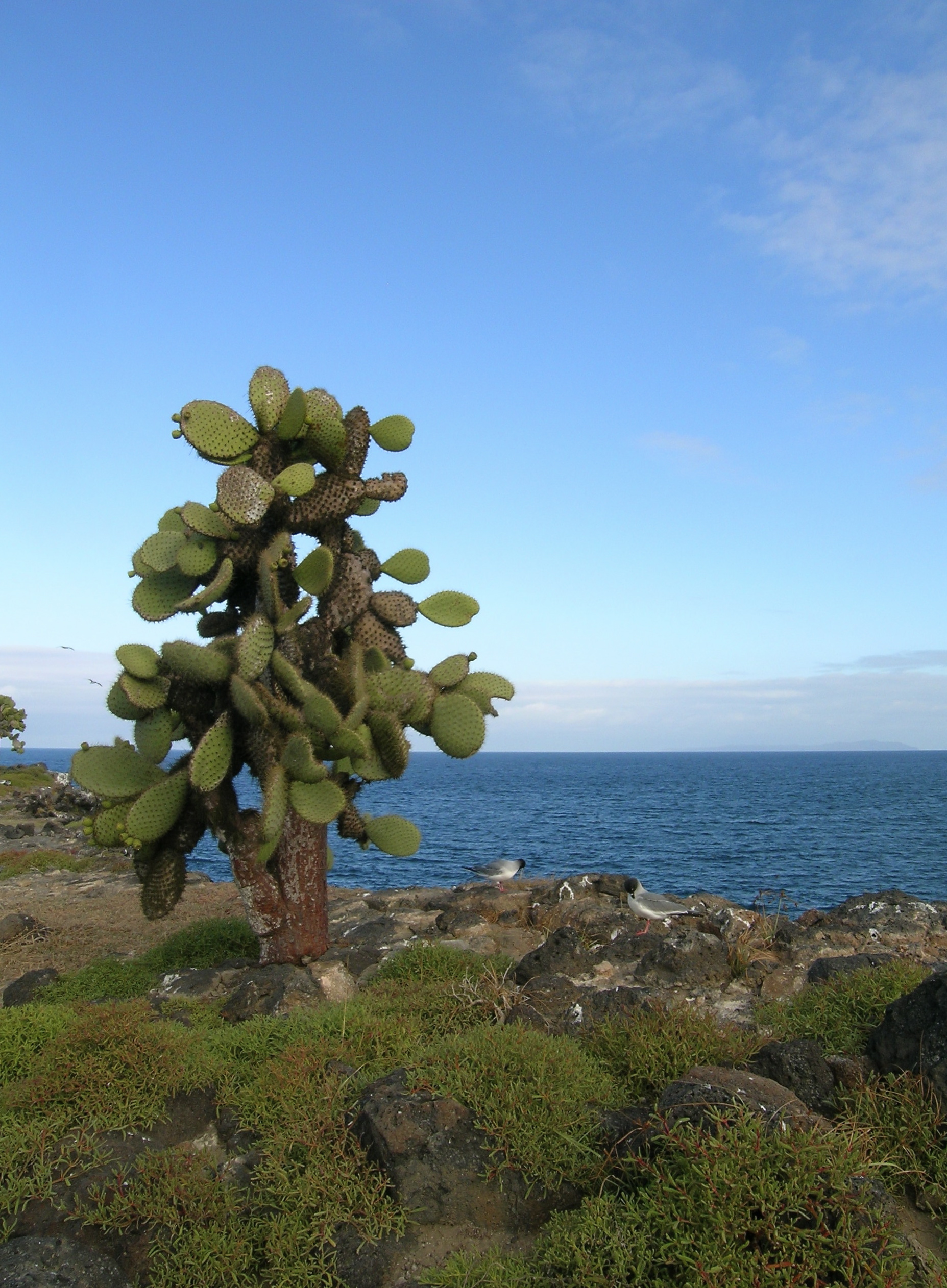 Tree cactus (Opuntia echios var. barringtonensis) on Santa Fe Island, Galapagos. The birds perched to the right of the cactus are Swallow-tailed Gulls (Creagrus furcatus)